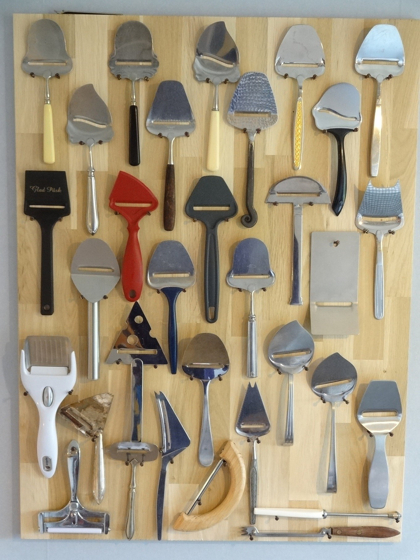 A representative collection of Cheese slicers